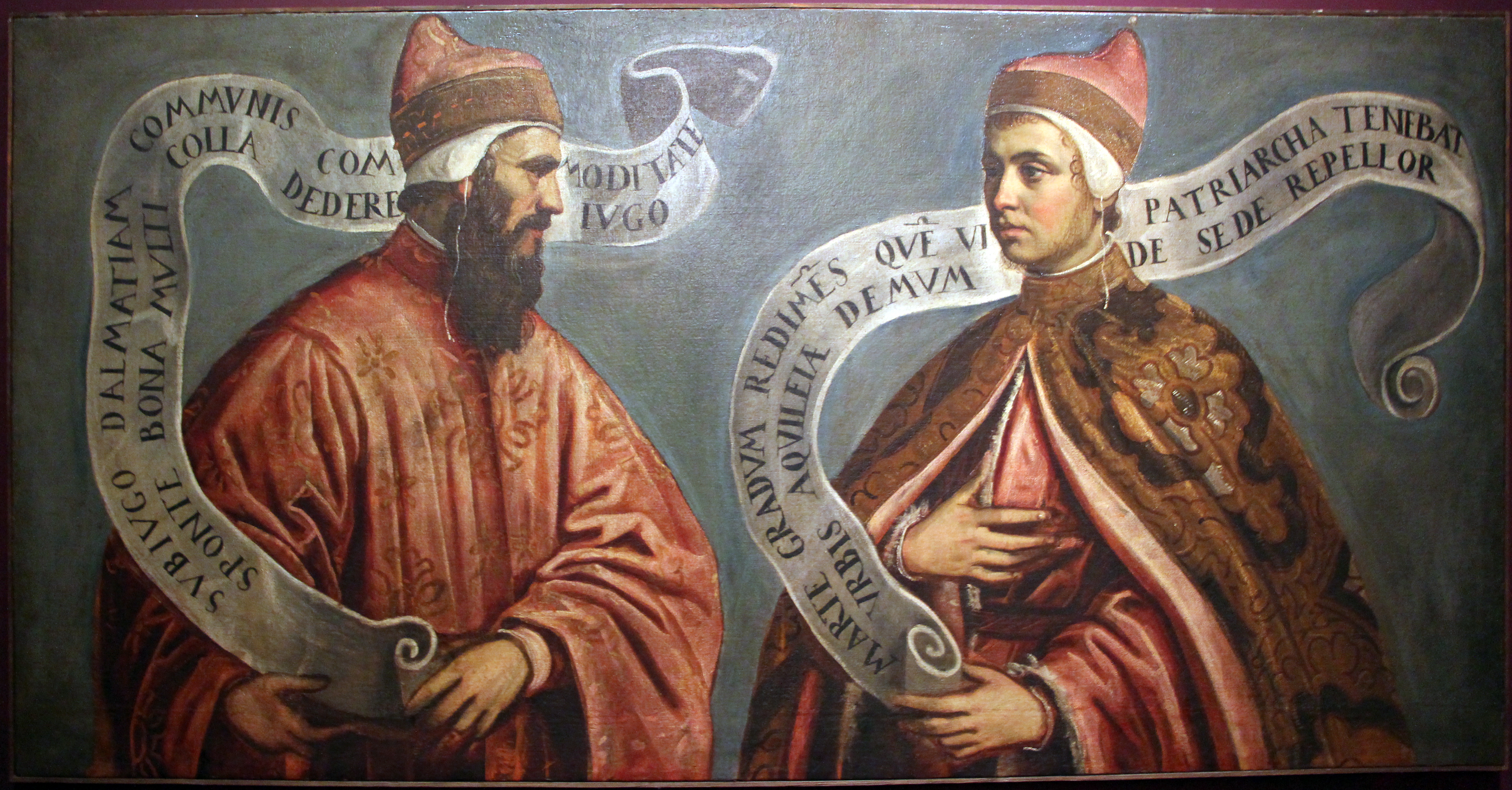 Interior of the Doge's Palace (Venice) - Appartamento dogale